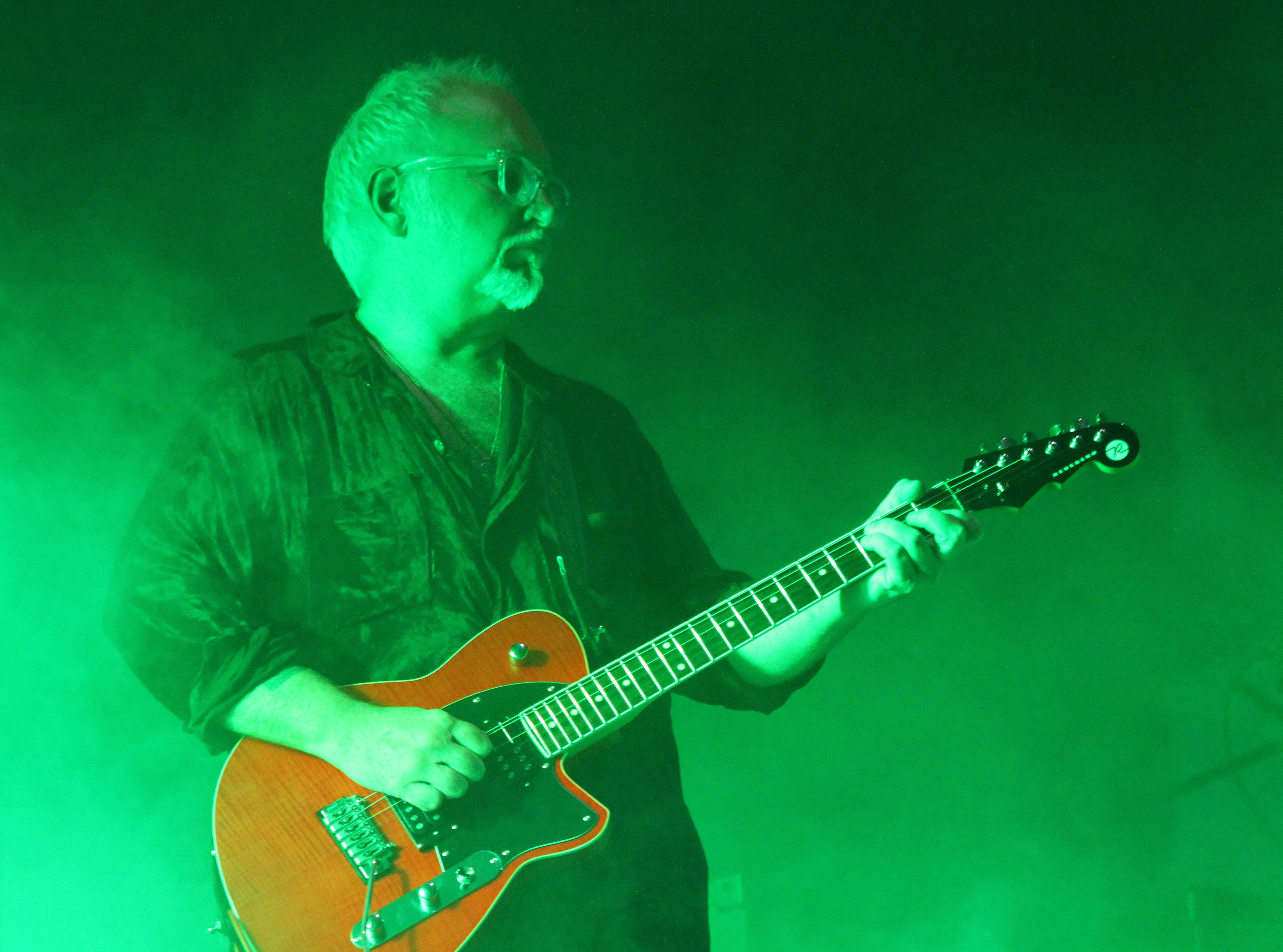 Posted via email from Globalite Magazine